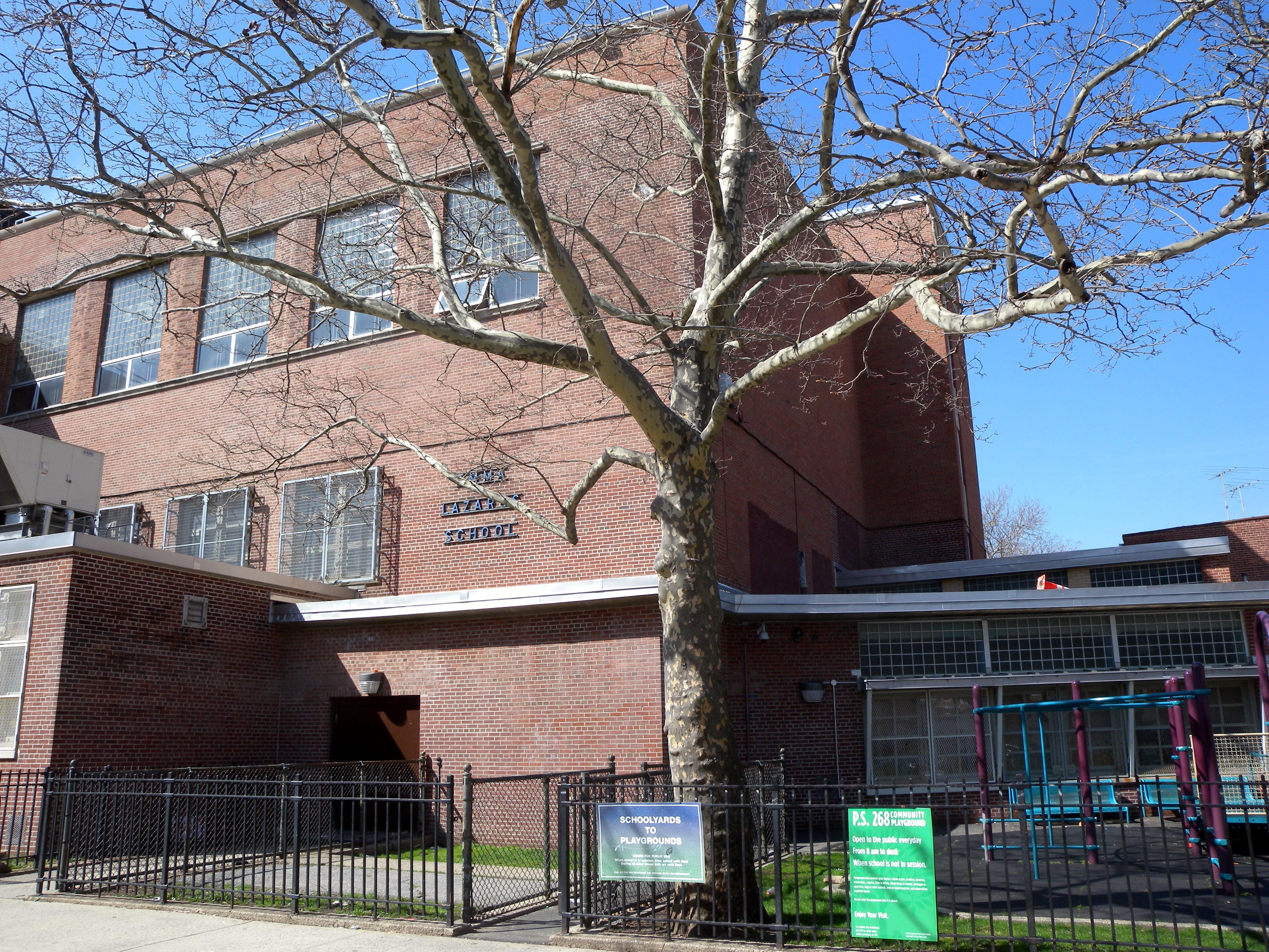 Looking northwest across Clarkson Avenue at PS 268, the Emma Lazarus School, on a sunny afternoon. ZIP 11203.